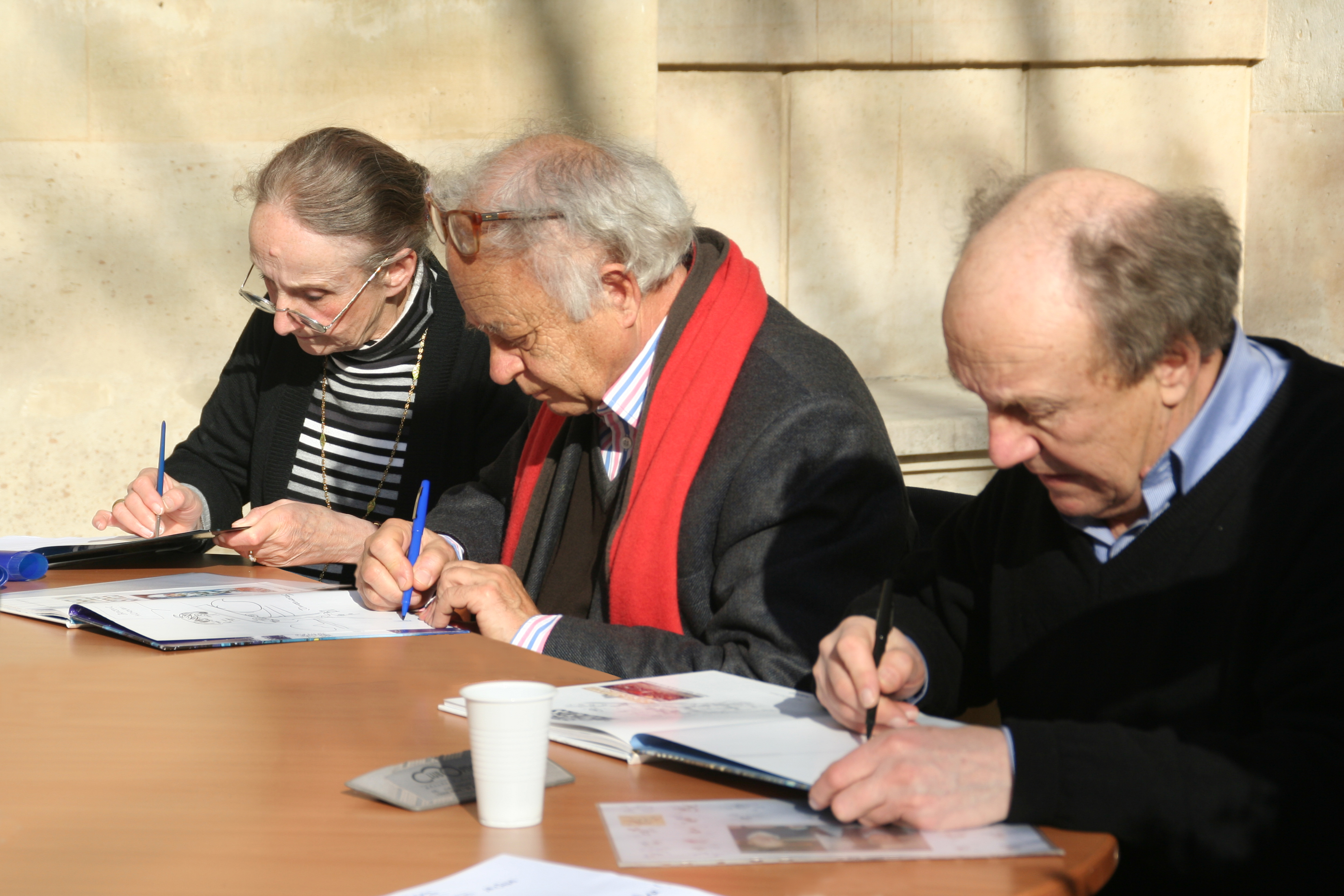 Autograph session at Comic Festival des Grandes Ecoles at the Ecole Normale, Paris, February 28, 2009. From left to right: Eveline Tranlé (colorist), Pierre Christin (writer), Jean-Claude Mézières (illustrator).